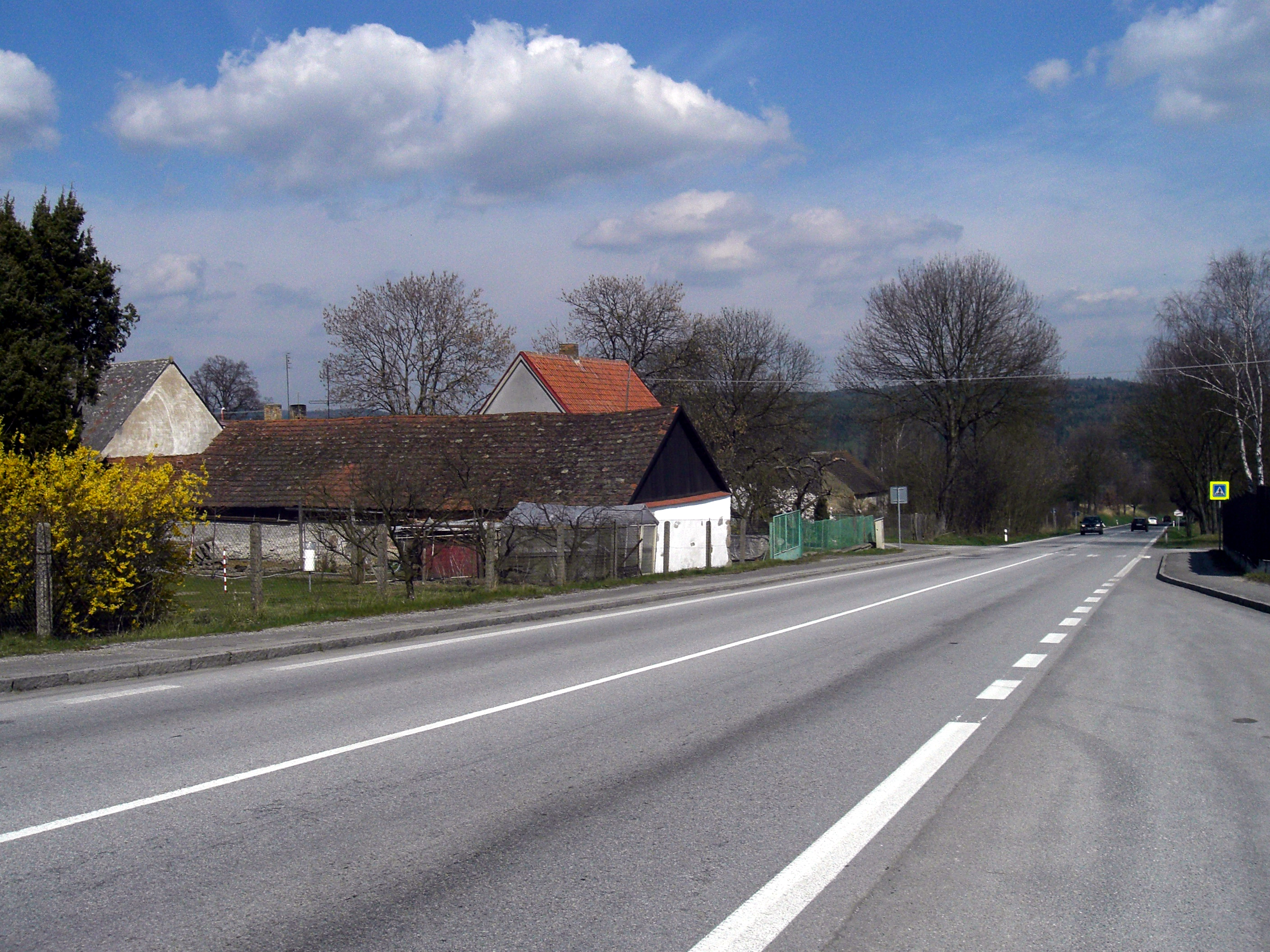 Temešvár village in the Písek district, Czech Republic